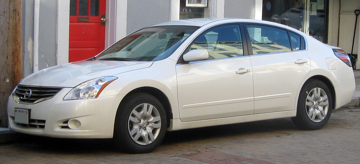 2010 Nissan Altima photographed in Annapolis, Maryland, USA.